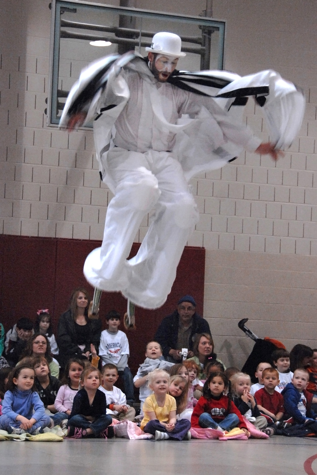 Cirque du Soleil performer ‘Dream Boat’ leaps into the air at the request of hundreds of children present during a special performance of the Saltimbanco touring troupe. The Cirque du Soleil’s touring troupe came to Offutt as part of a special ‘Month of the Military Child’ event during their regular promotional stops for their show in Omaha.